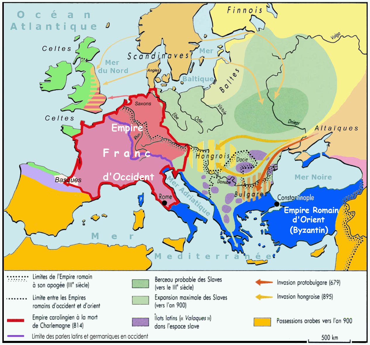 Map of Europe, year 850 (french language)